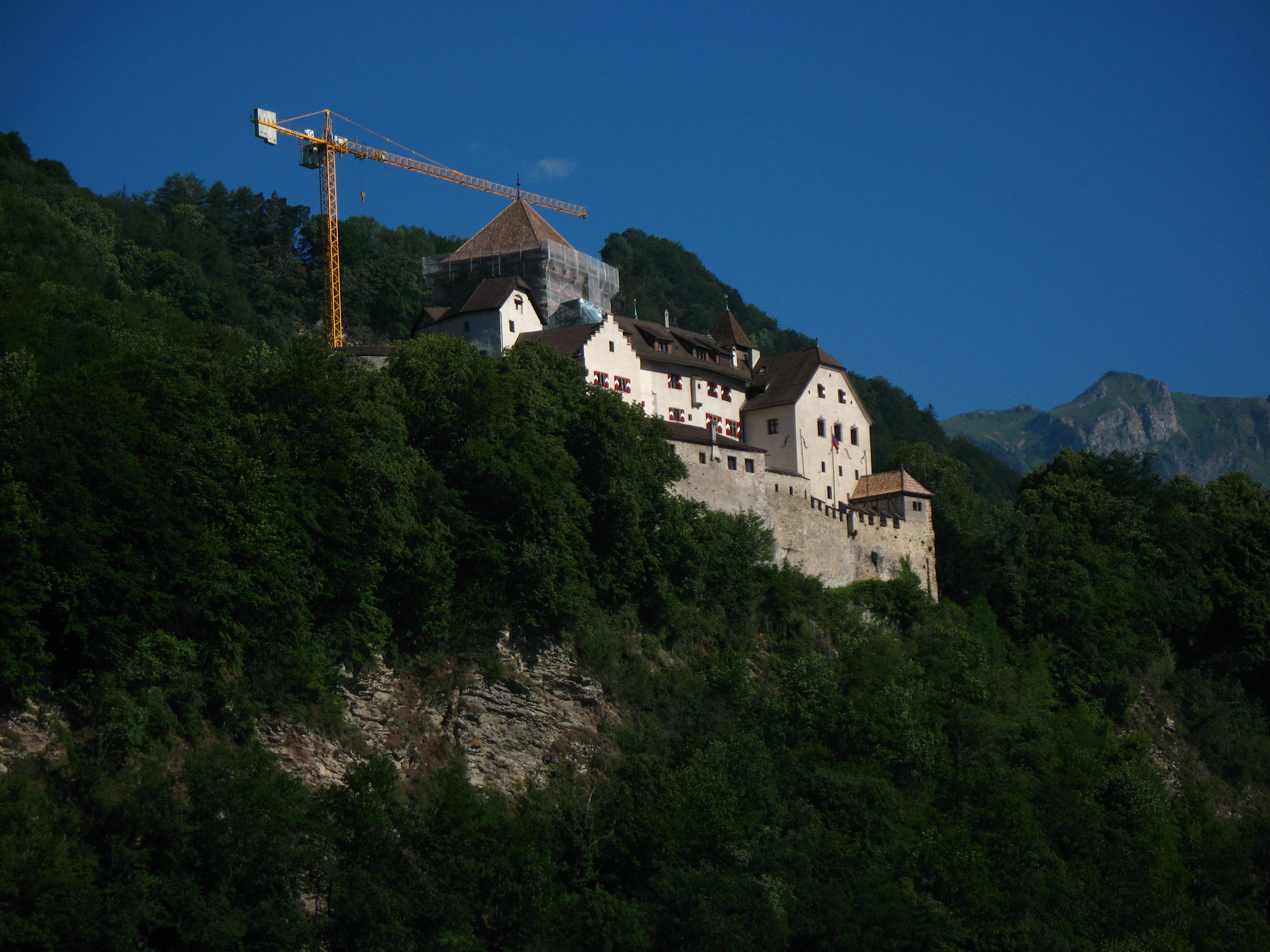 Schloss Vaduz viewed from Mitteldorf, Vaduz, Liechtenstein